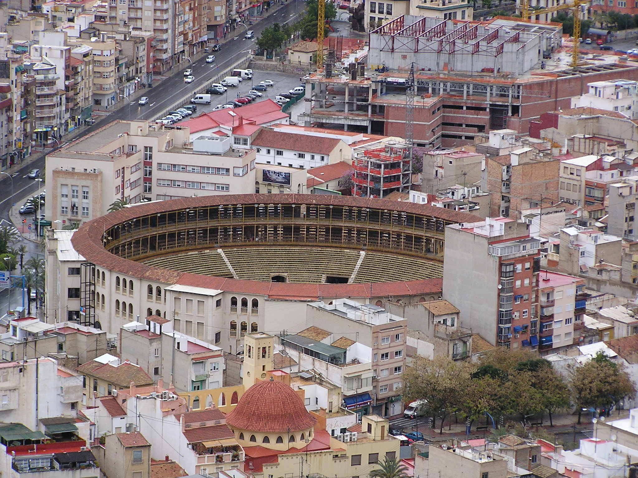 Alicante, Plaza de Toros, view from Santa Barbara Castle (in the evening, after a rain)